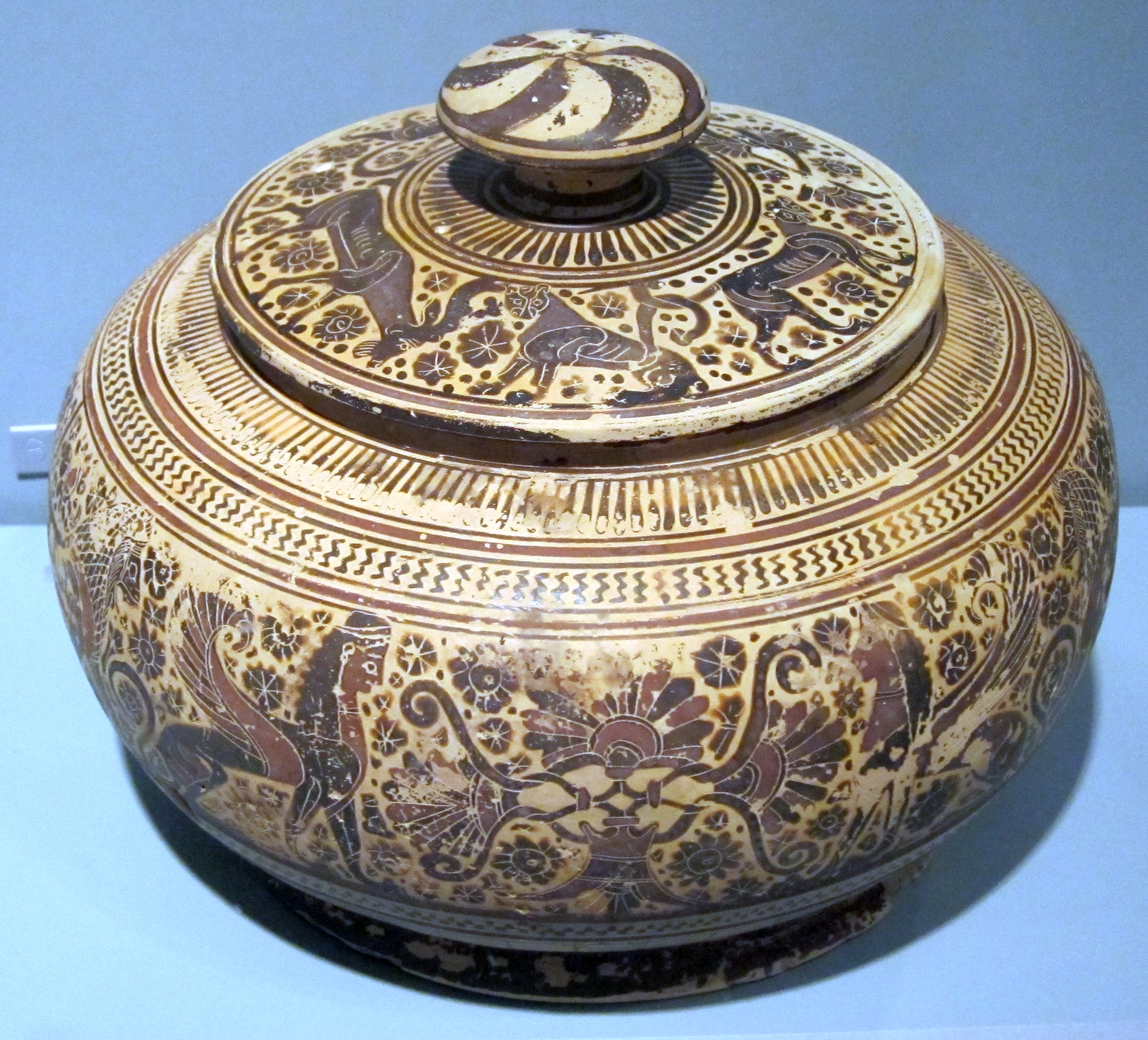 Corinthian pyxis.